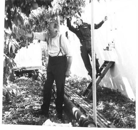 Peaches being picked in one of the glasshouses. Tichborne Manor, Tichborne, 229/58th Medium Regt, RA.